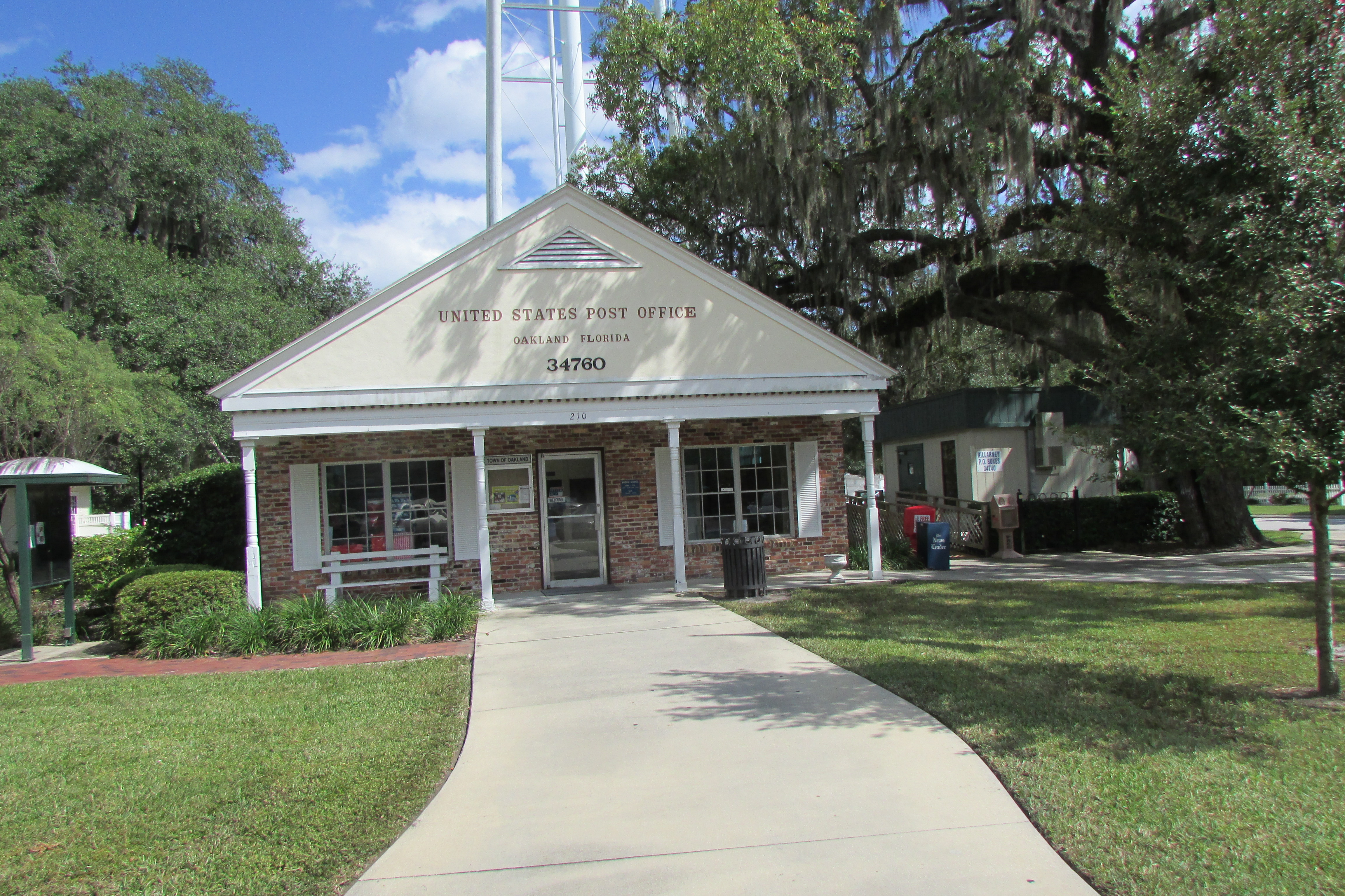 Oakland, Florida. Pictures taken along the West Orange Trail